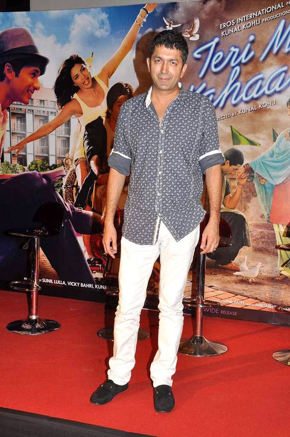 Kunal kohli teri meri kahaani launch